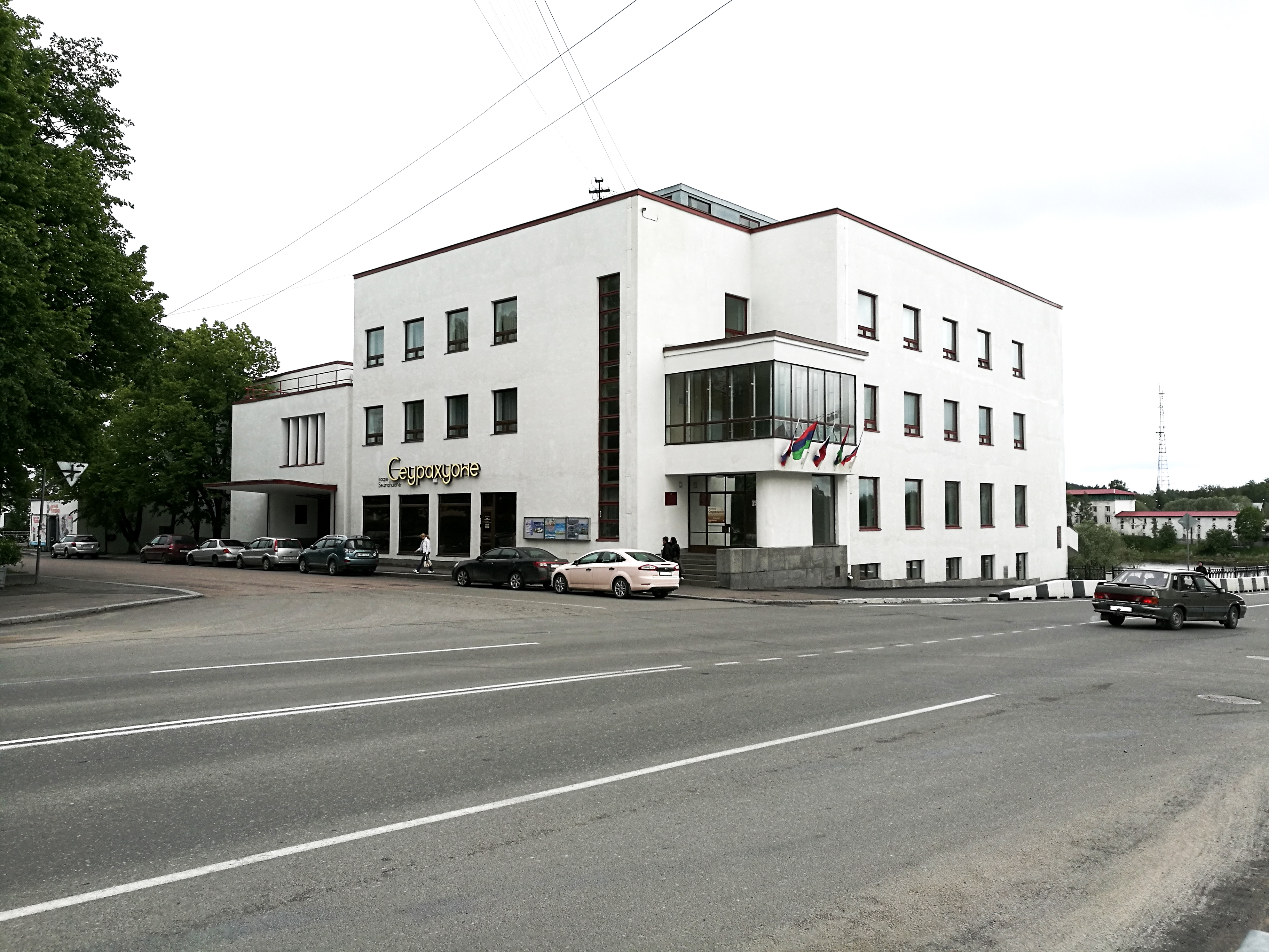 Hotel Seurahuone in Sortavala, after restauration.